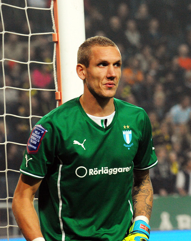 Robin Olsen playing for Malmo FF in a match against AIK on 5 October 2014